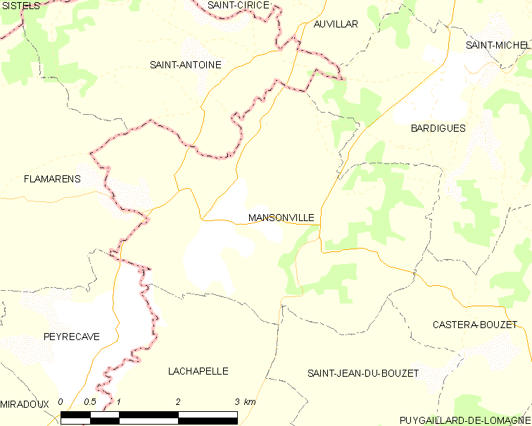 Map of French municipality Mansonville